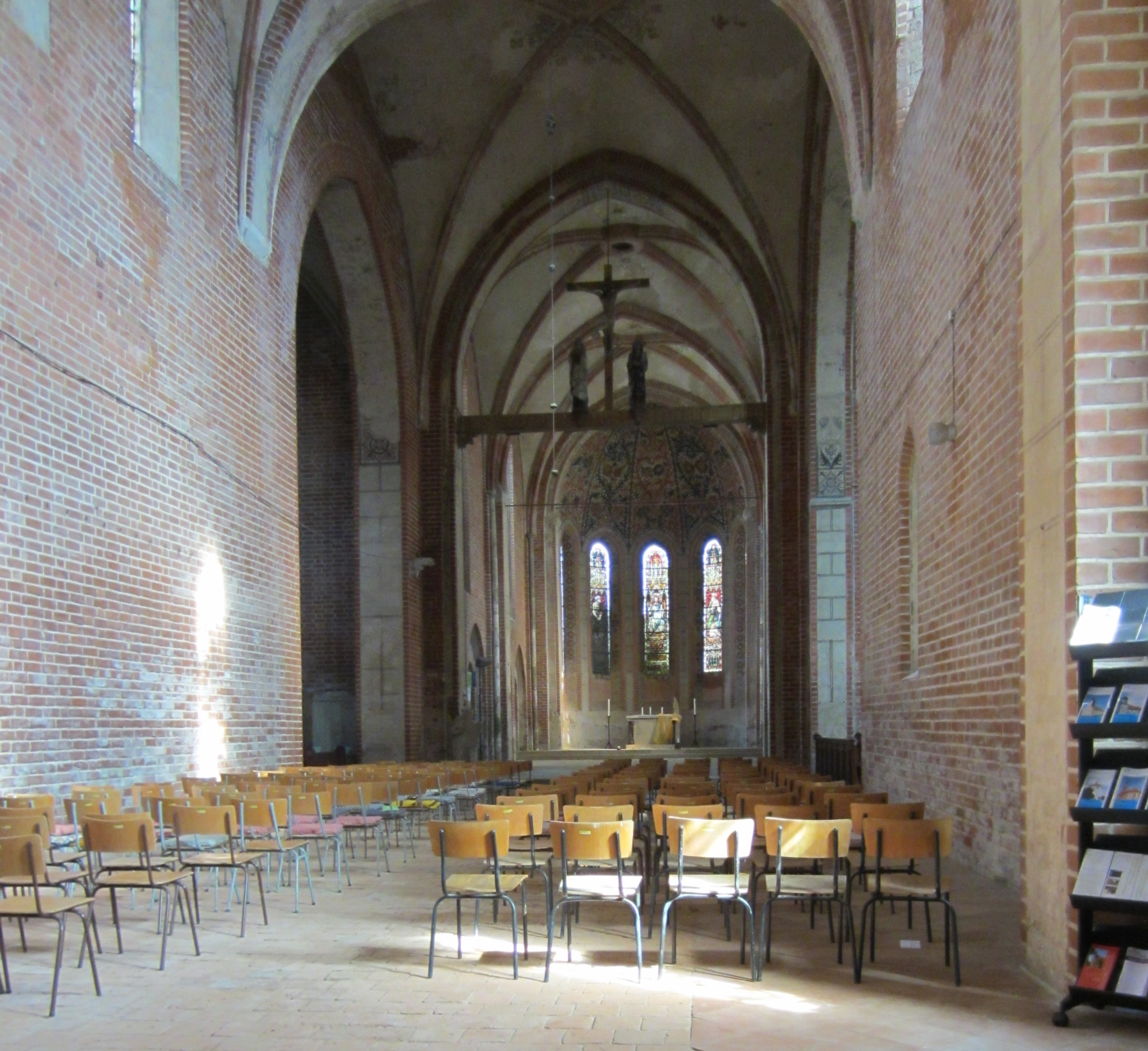 Interior, with Gothic rib vaults and crossings, of St. Maria church — at the Kloster Marienstern (Marienstern Cloister nunnery). A 13th century German Brick Gothic church, in Mühlberg on Elbe, Brandenburg, northeast Germany.